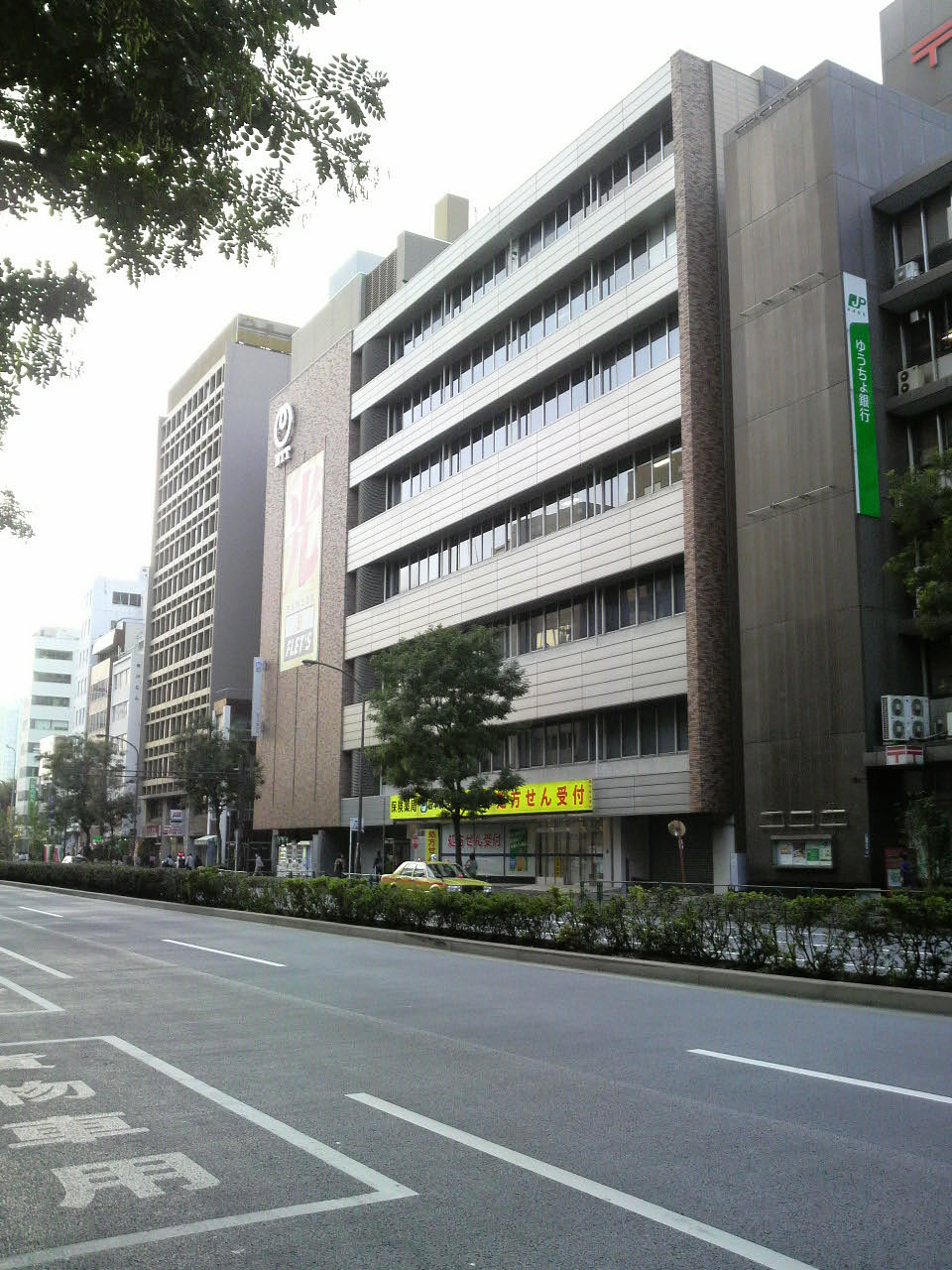 NTT EAST Shiba